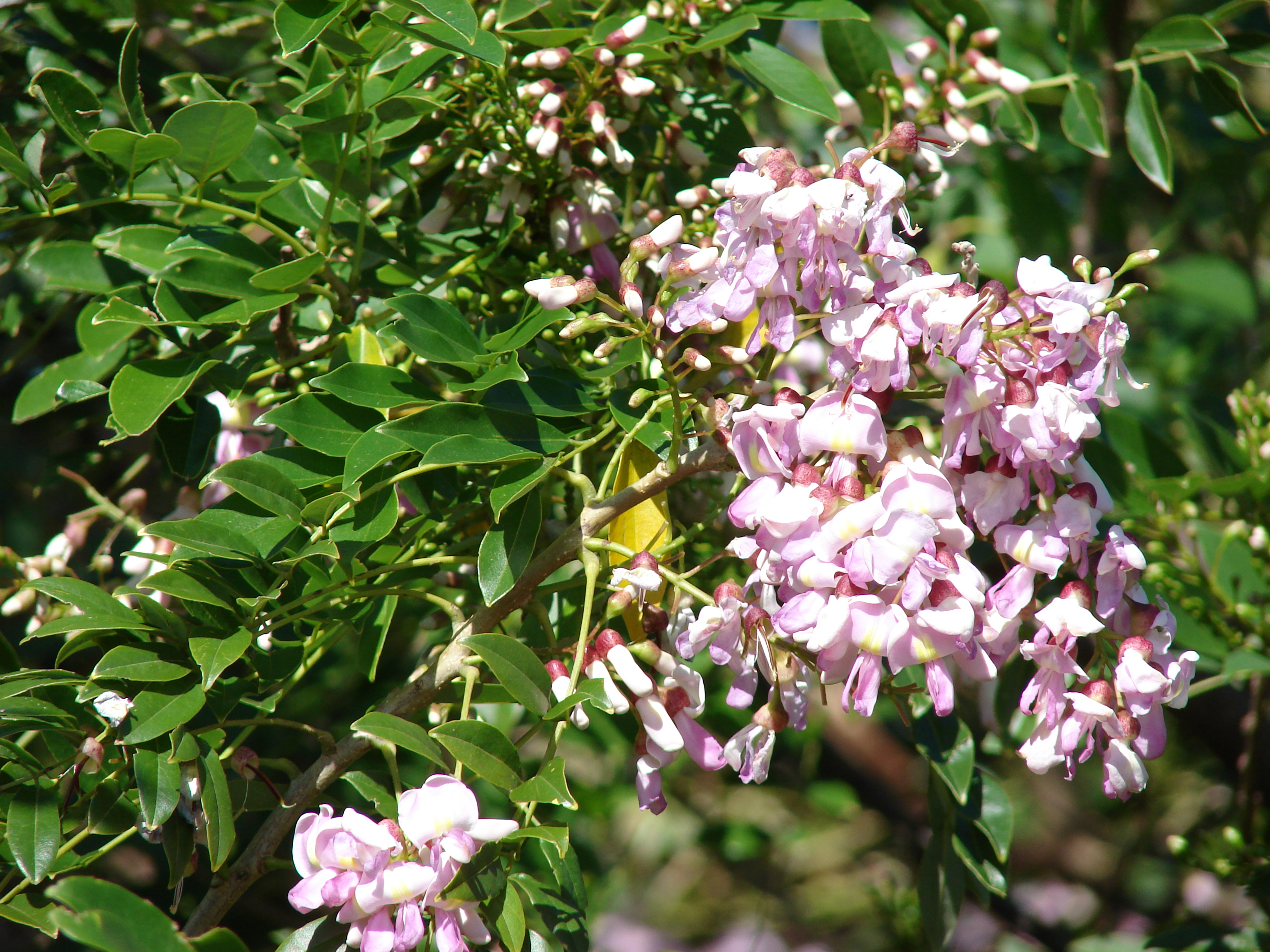 Gliricidia sepium (flowers). Location: Maui, Spreckelsville